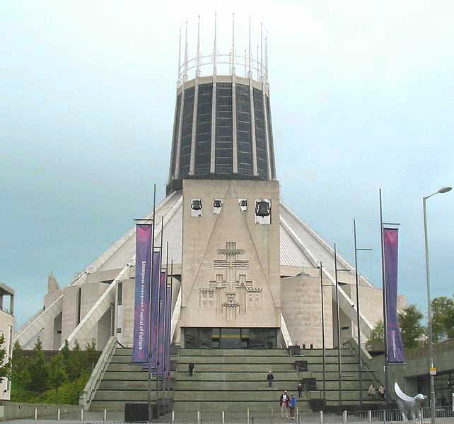 Liverpool Image is File:Liverpool Metropolitan Cathedral 2008 10.jpg but with a blue - er sky.